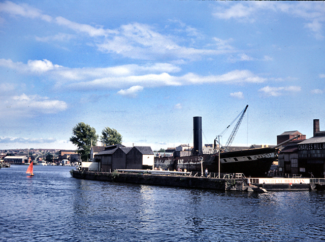 Bristol Floating Harbour with SS Great Britain 1975. Shows the SS Great Britain at an early stage of reconstruction. Can anyone submit a photo showing the current situation?